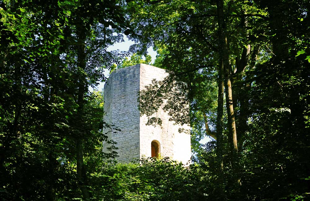 Castle Ebermannsdorf